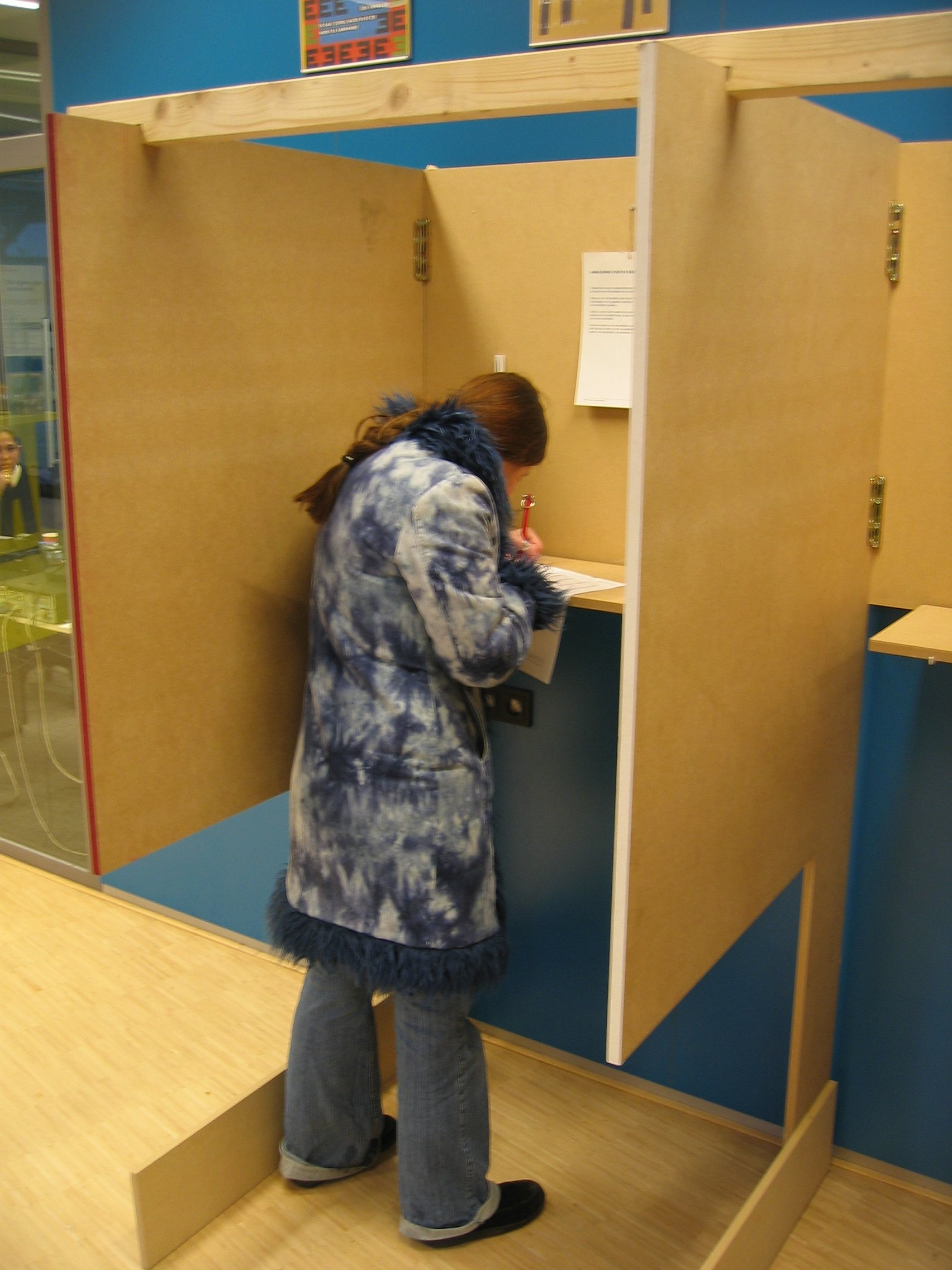 The Provinciale Statenverkiezingen in The Netherlands, 2007. Due to problems with the voting computers, Amsterdam chose to use the red pencil. However, as the official voting boxes had been sold off, specially converted garbage containers were used as voting booth. The person depicted in these pictures is the photographer's girlfriend. Both she and the head of the voting bureau gave permission to photograph her while voting. Pe